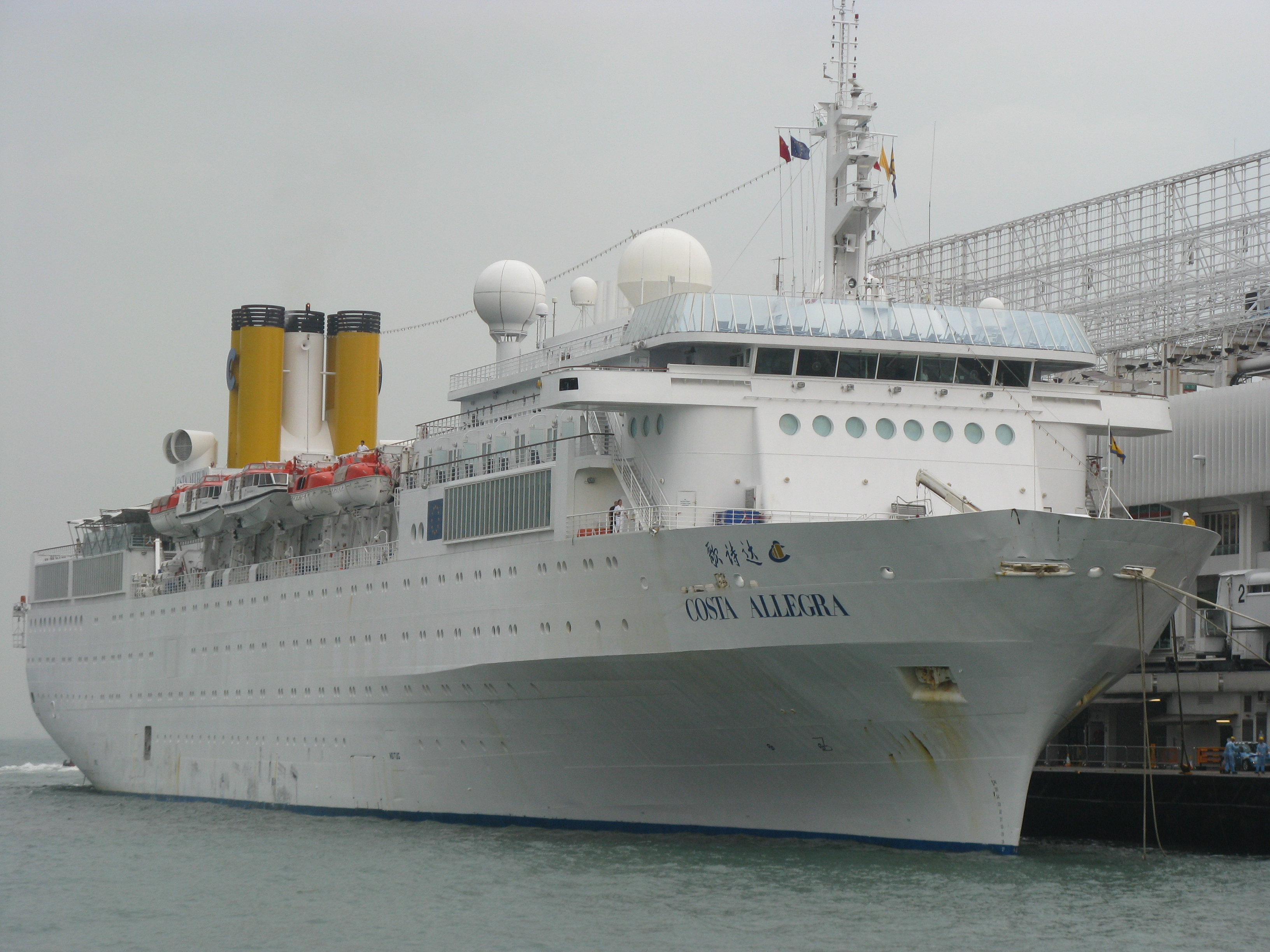 Template:MS in Ocean Terminal, Hong Kong as seen in 2009